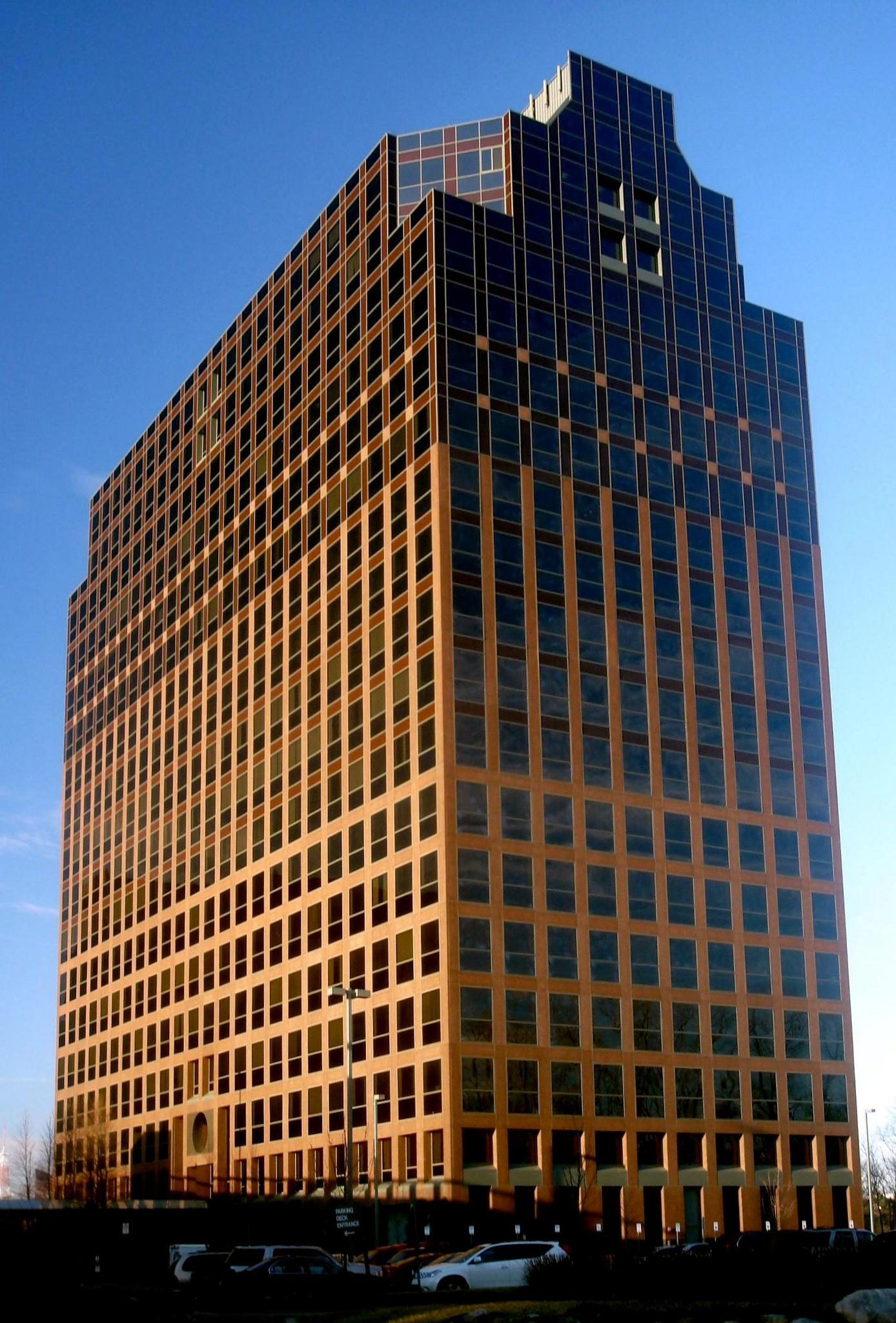 One Towne Square, Southfield